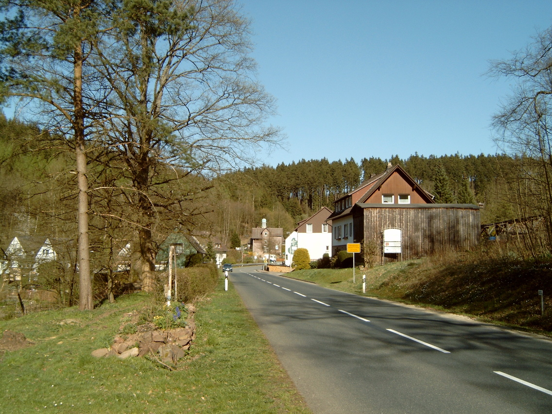 Fohlenplacken (district of Neuhaus i. S.) in the Solling